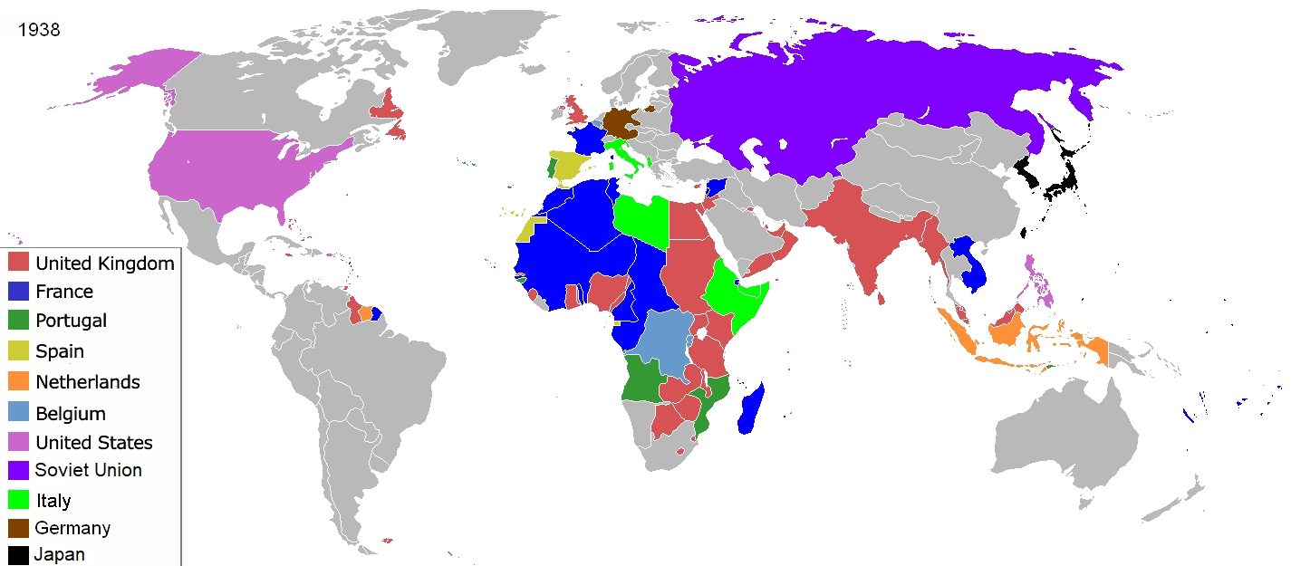 Map of major world powers by year, derived from public domain animated map on wikipedia. Maps of world history BC 2000 · 1000 · 500 · 400 · 323 · 300 · 200 · 100 · 50 AD 1 · 50 · 100 · 200 · 250 · 300 · 400 · 500 · 700 · 750 · 820 · 900 · 1556 · 1700 · 1859 Maps of colonization history 1492 · 1550 · 1660 · 1754 · 1800 · 1812 · 1822 · 1885 · 1898 · 1914 · 1920 · 1936 · 1938 · 1945 · 1959 · 1974 · 1975 · 2007 Animated Map Maps of Cold War 1959 · 1980 · see also: Eastern Hemisphere only maps template (1300BC-1500AD) (this template: · view · discuss ) As the orriginal licence of the animation was Public Domain, this image which has been derived from it is too: This work has been released into the public domain by its author, Andrei nacu. This applies worldwide.In some countries this may not be legally possible; if so:Andrei nacu grants anyone the right to use this work for any purpose, without any conditions, unless such conditions are required by law.